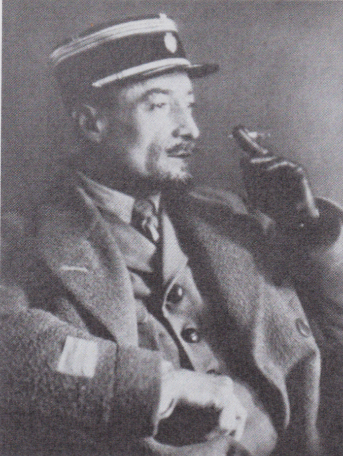 František Kupka (1871-1957) was a Czech painter and graphic artist. On the photo in legionary uniform around 1917.